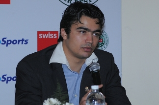 Press conference held by GoSports to announce Shiva's qualification for the 2010 Vancouver Olympics